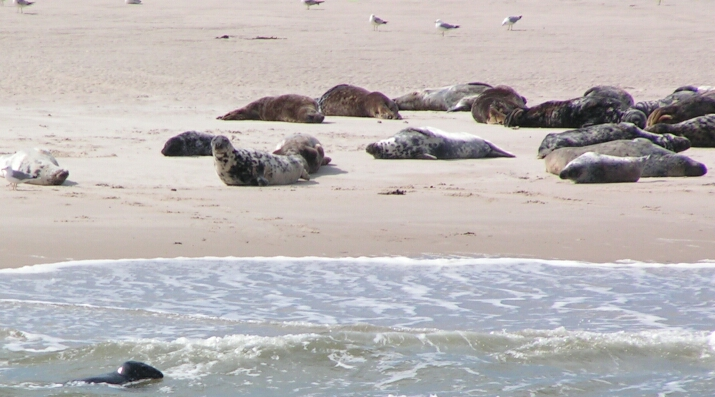 group of Halichoerus grypus on "Jungnamensand" near "Amrum" in the German wadden sea